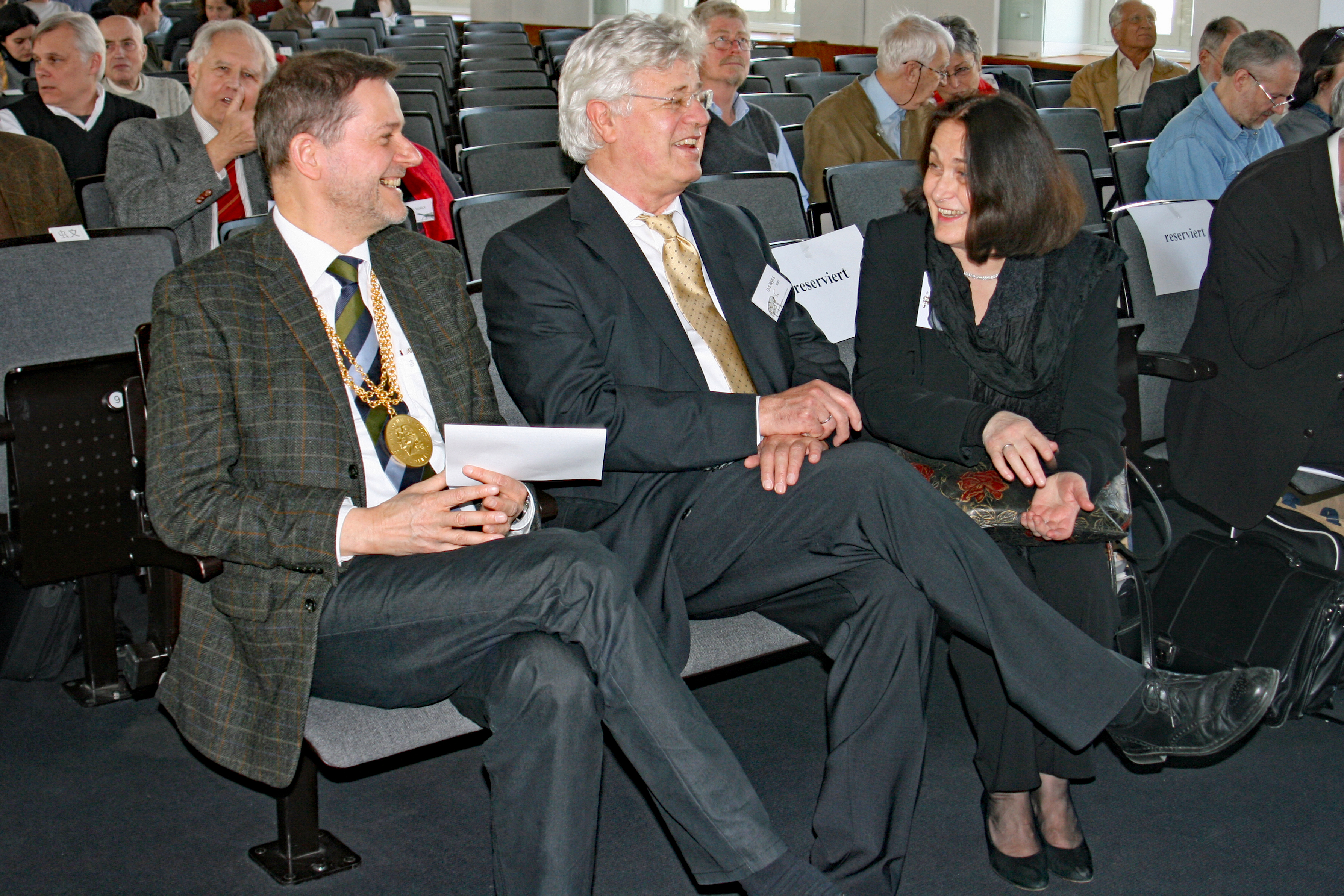 Jan-Hendrik Olbertz, Urs Wyss, and Annelene Wyss-Wortmann during entomologists' congress of DGaaE 2011 in the auditorium at Humboldt university in Berlin